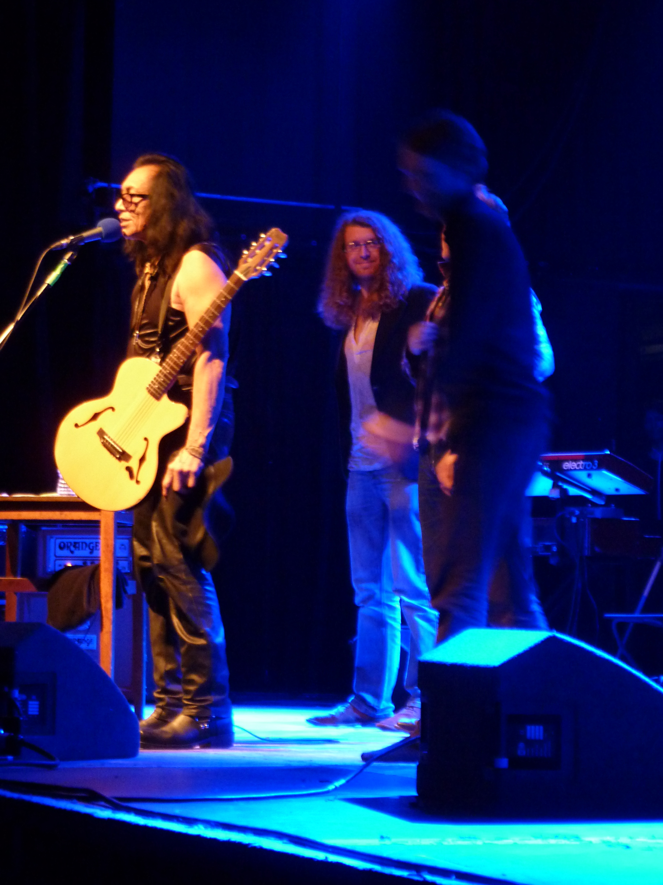 Sixto Rodriguez on stage at Manchester Academy, 2 December 2012. He finally took his hat off at the end of the show....